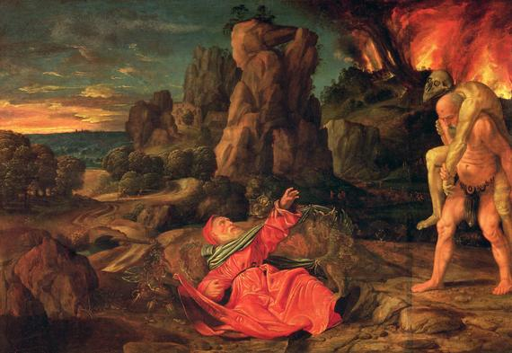 SAVOLDO, Giovanni Girolamo Saint Anthony tempted